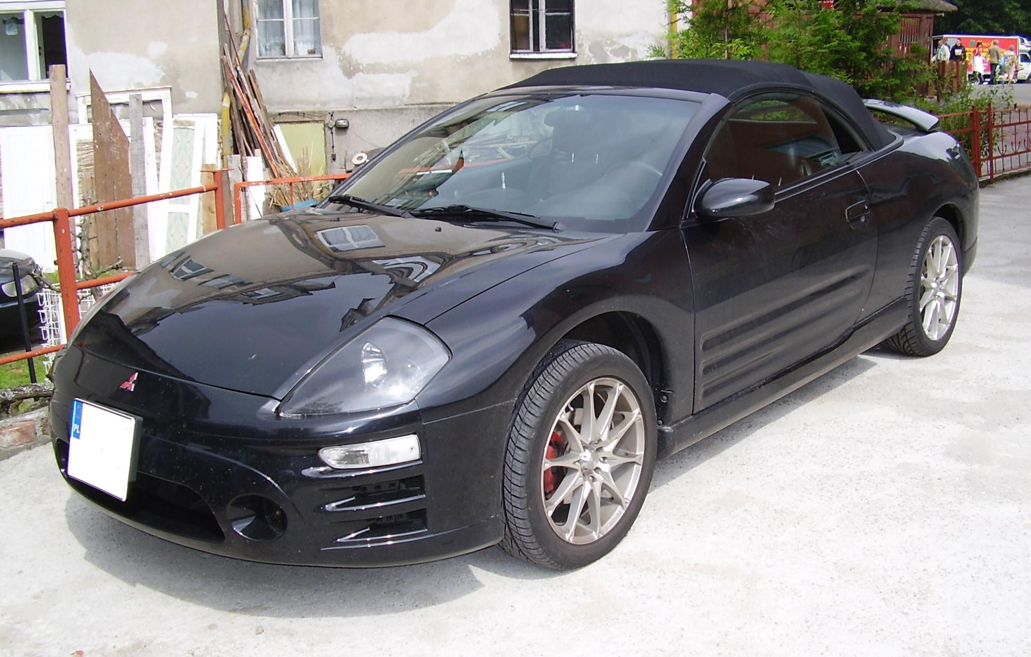 Mitsubishi Eclipse in Międzyzdroje (Poland)